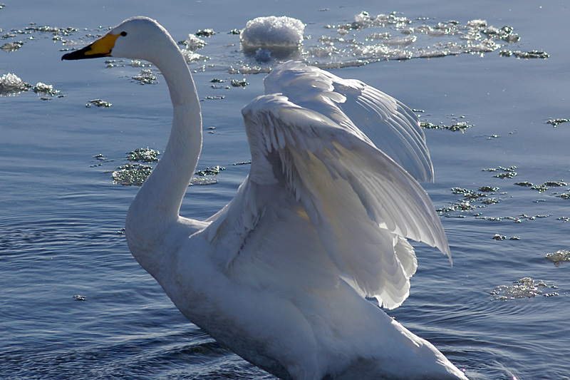 Whooper Swan with wings spread.